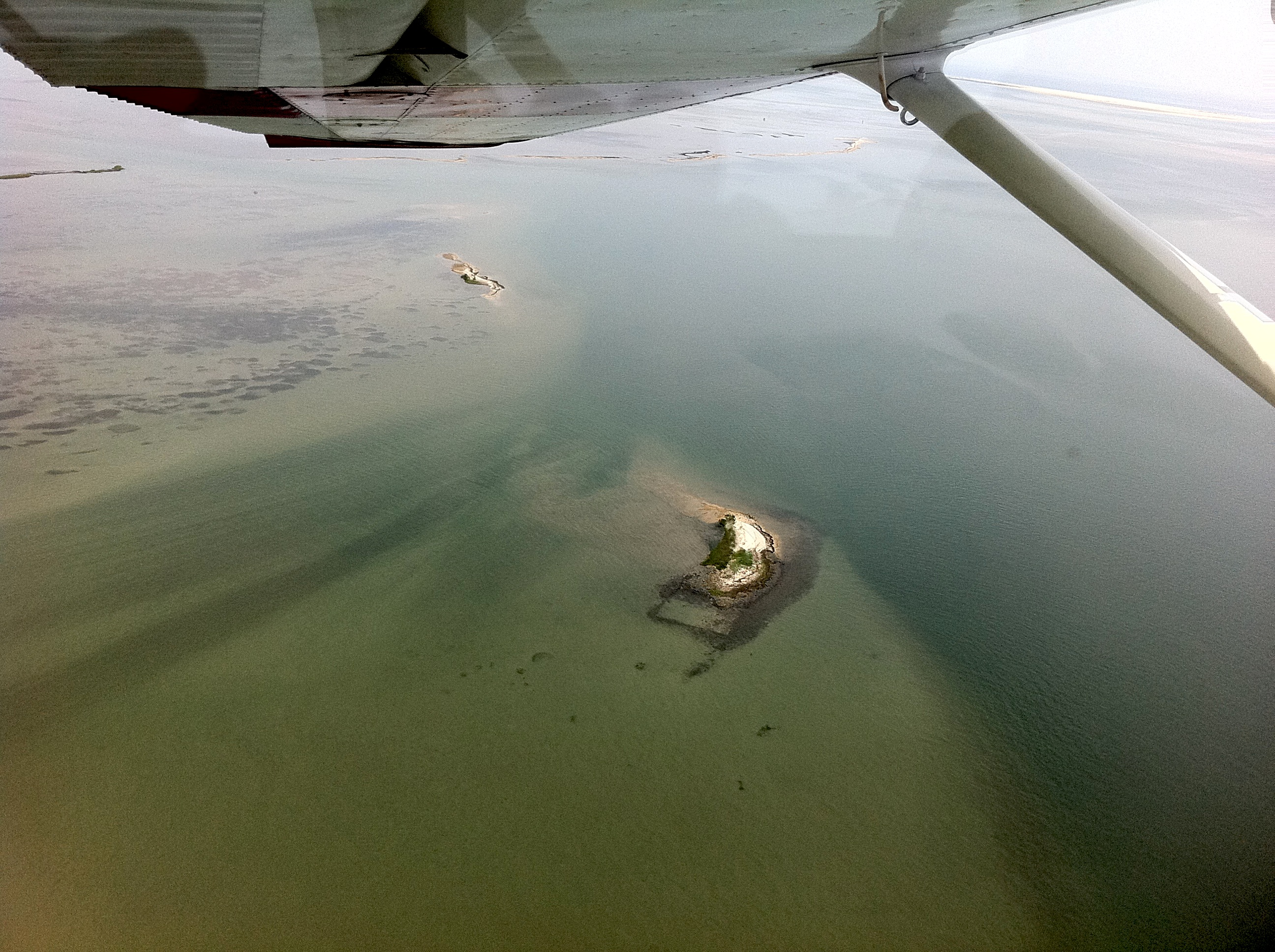 Remains of Fort Ocracoke from 500 feet